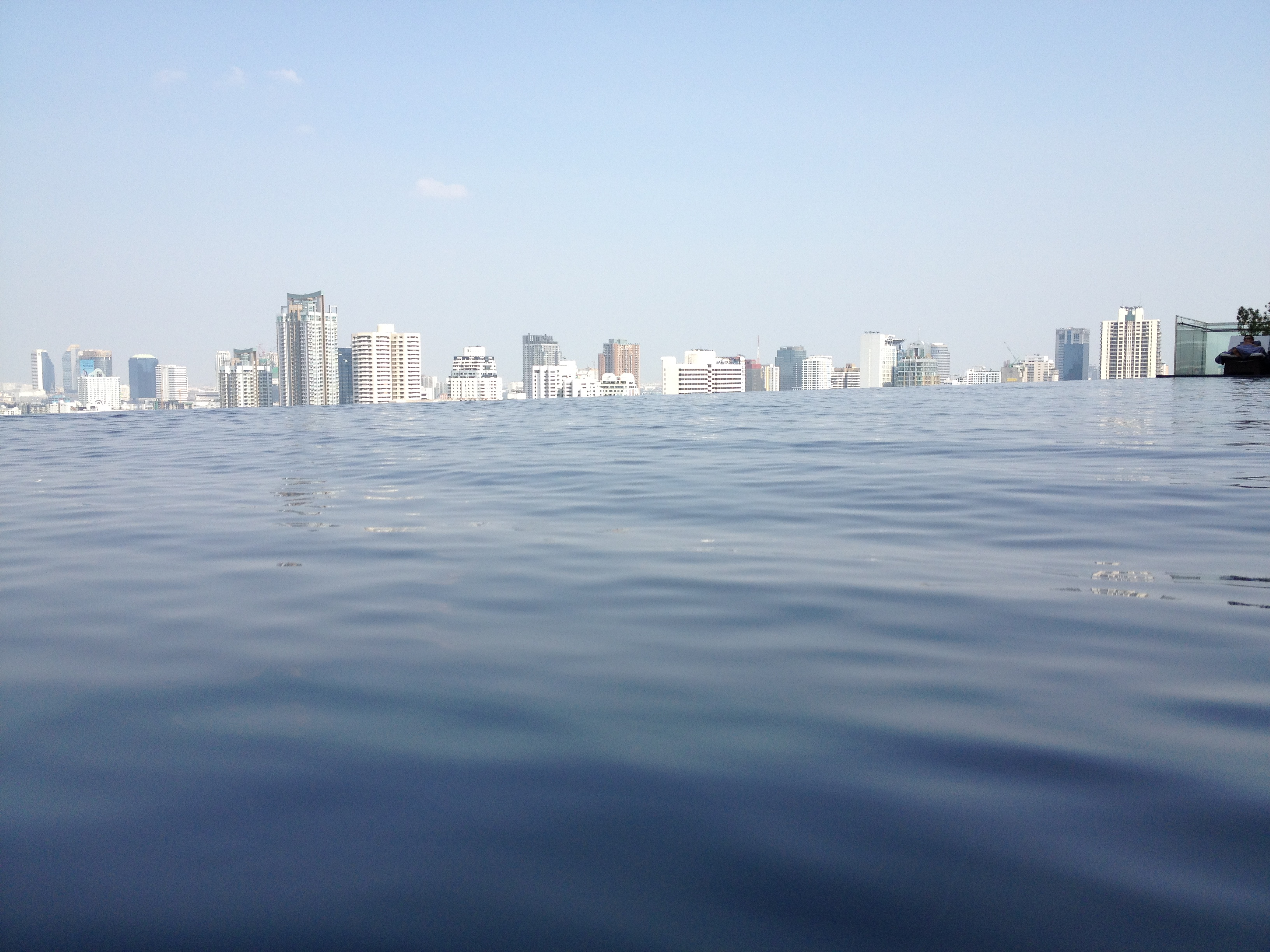 View of Bangkok from the pool of the Okura Prestige Hotel, Bangkok, Thailand.